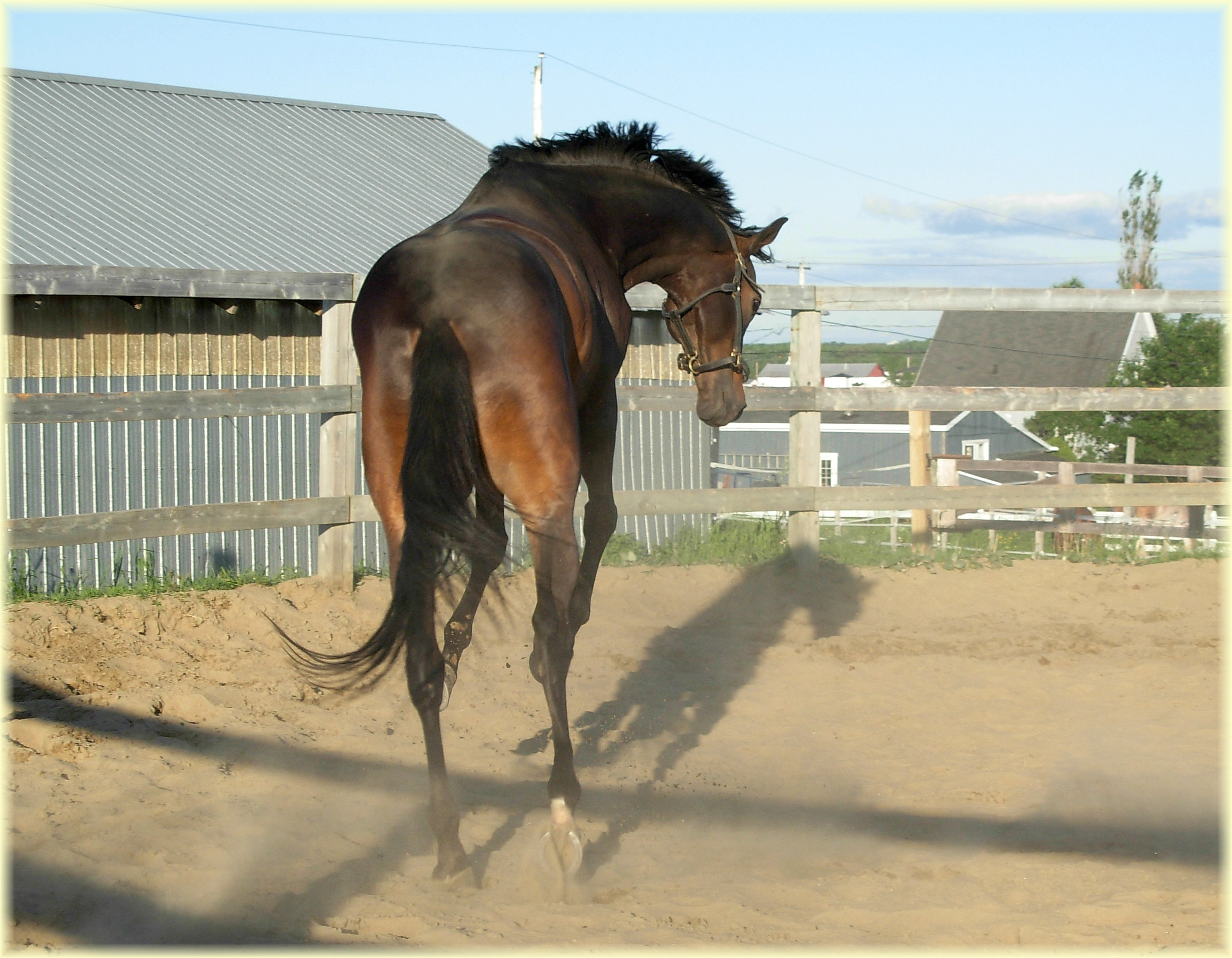 A thoroughbred play-spooked by his shadow